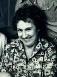 Photo of the Cast of the television program All in the Family. Standing are Sally Struthers (Gloria) and Rob Reiner (Michael); seated are Archie (Carroll O'Connor) and Edith (Jean Stapleton), who is holding the child who played the Bunker's grandson, Joey.